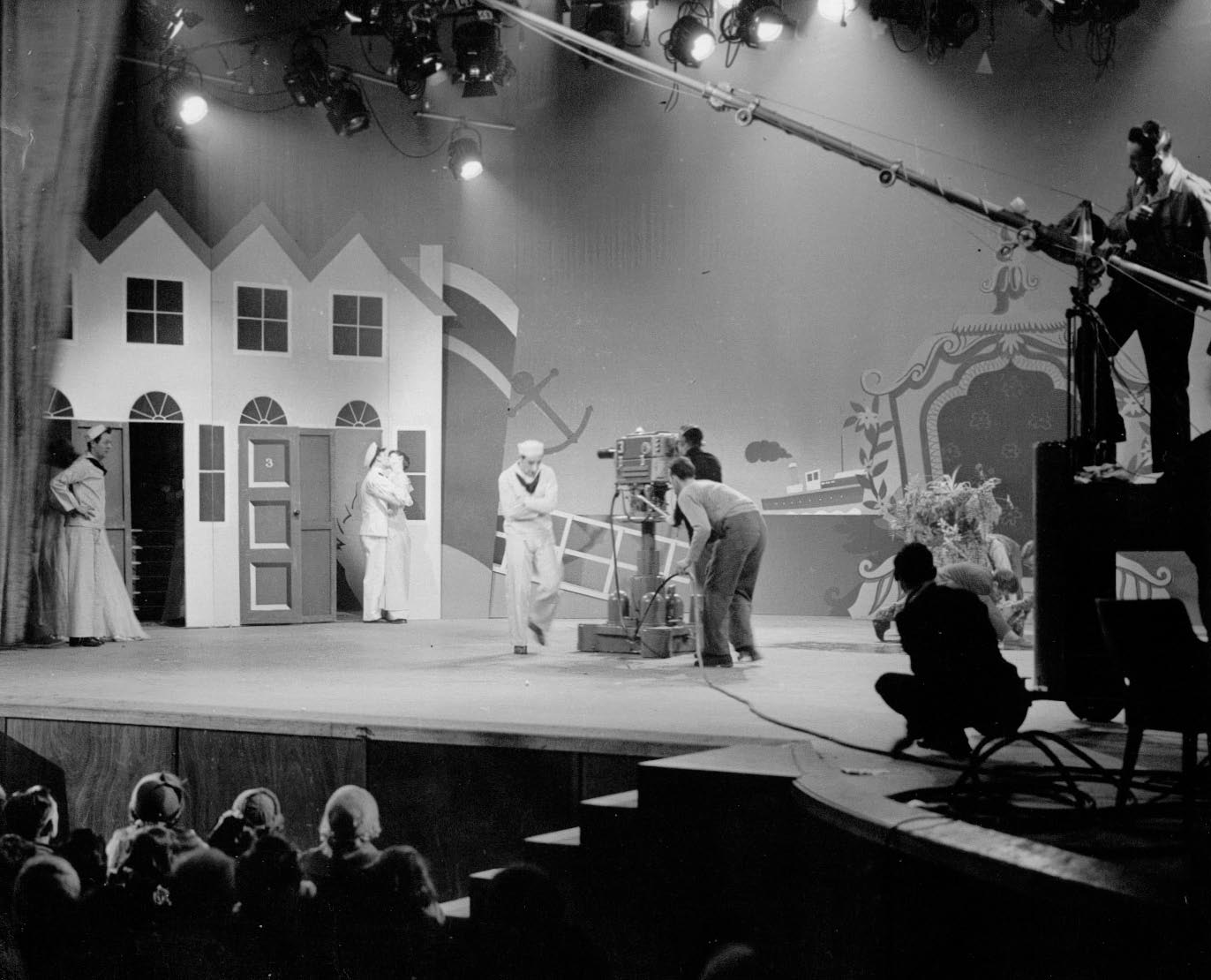 Studio A Glasgow - the Theatre Royal. Rehearsals for the Larry Marshall Show